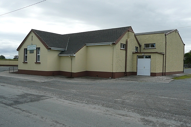 Taghmaconnell community centre An austere building but no doubt functional.